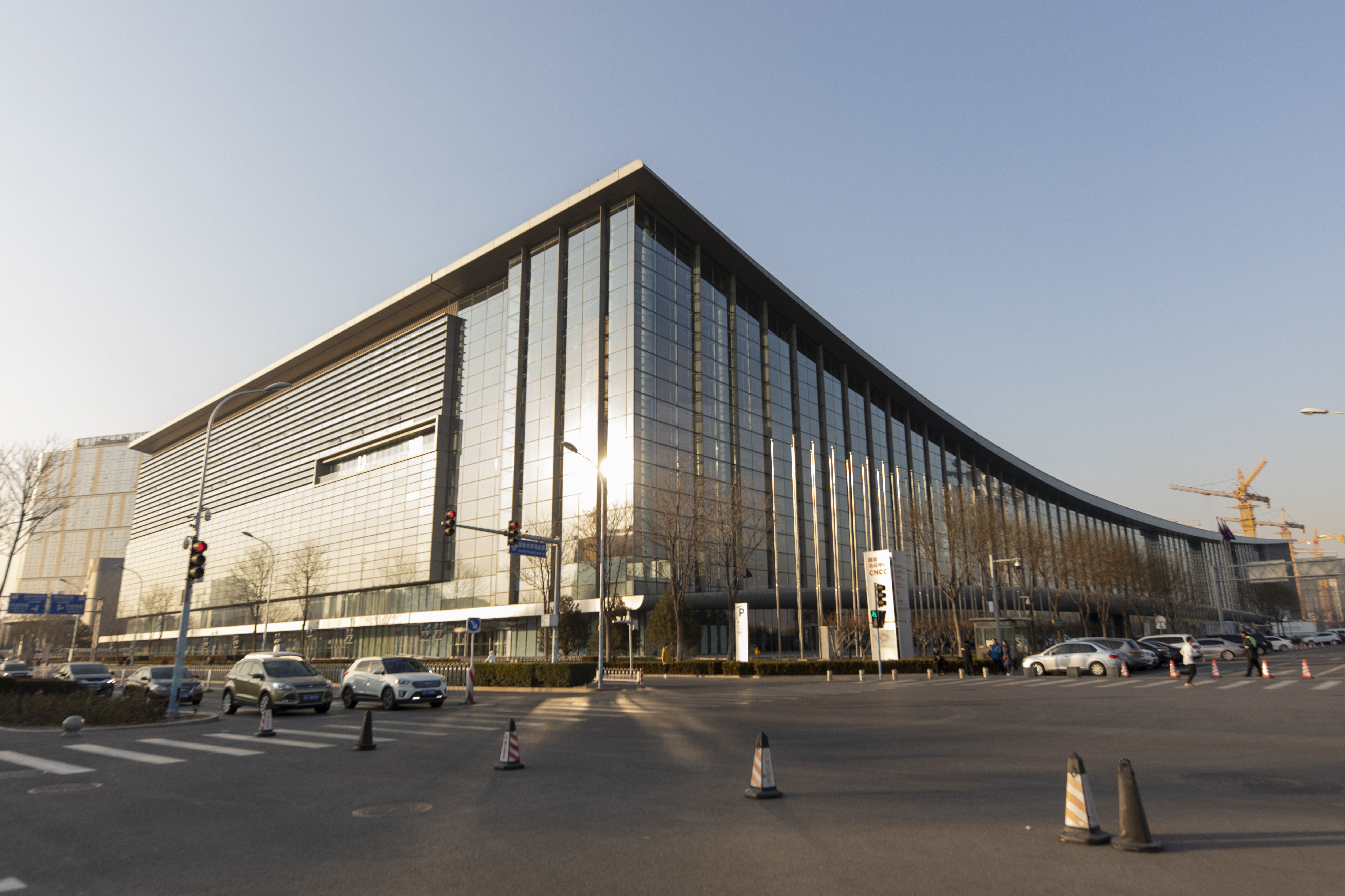 China National Convention Center